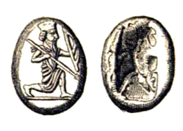 See also File:C+B-Shekel-FigA-PersianDaric.PNG, for a tracing of the image